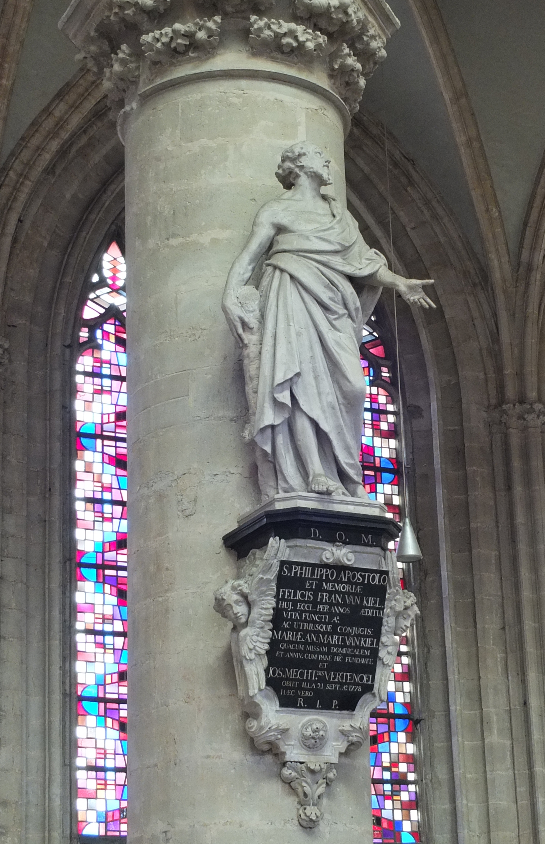 Statue of Philip the Apostle by Pieter Valckx in Onze-Lieve-Vrouw-over-de-Dijlekerk (Church of Our Lady across the river Dijle) in Mechelen, Flanders, Belgium.